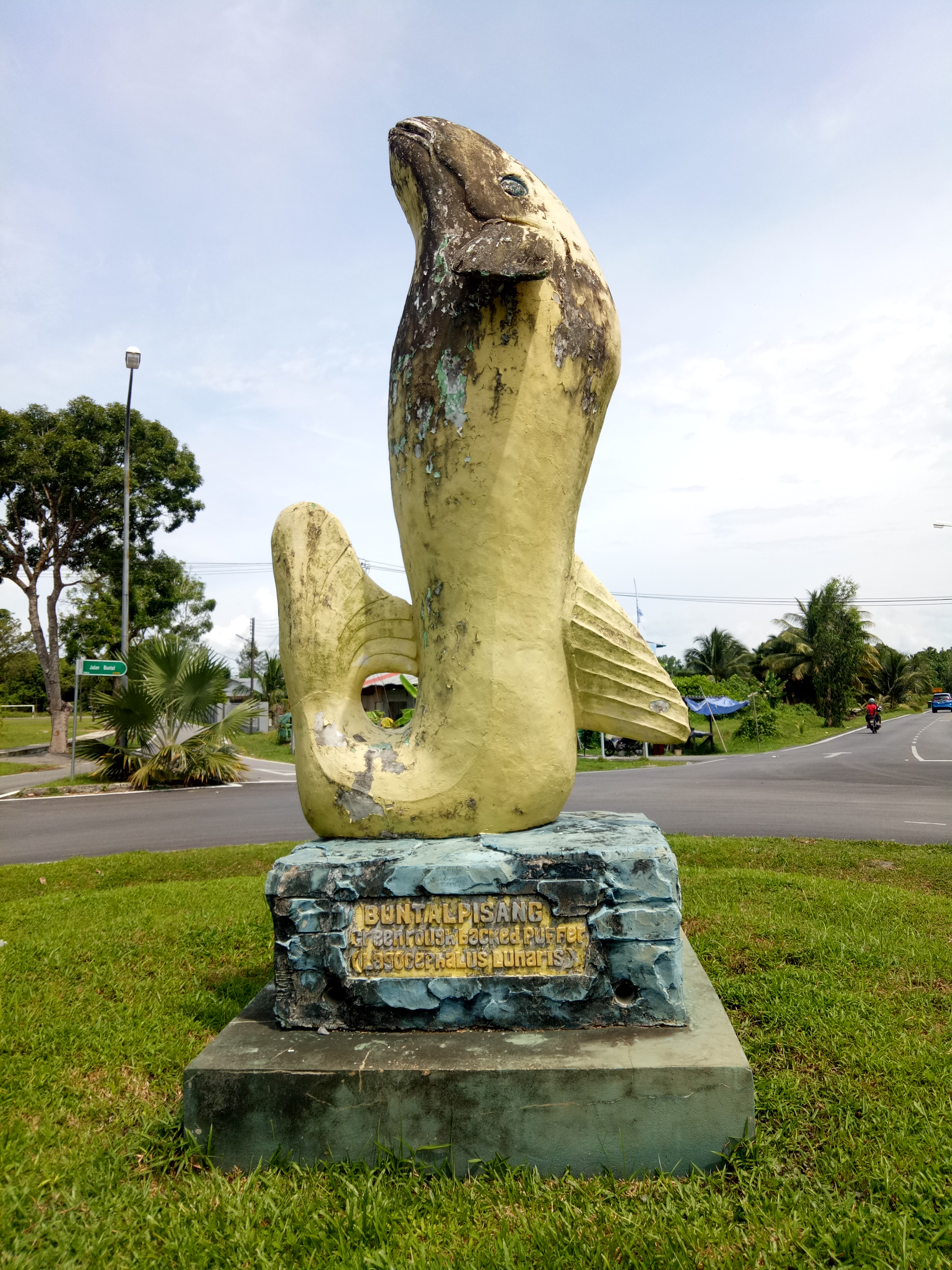 Mercu Tanda Kampung Buntal